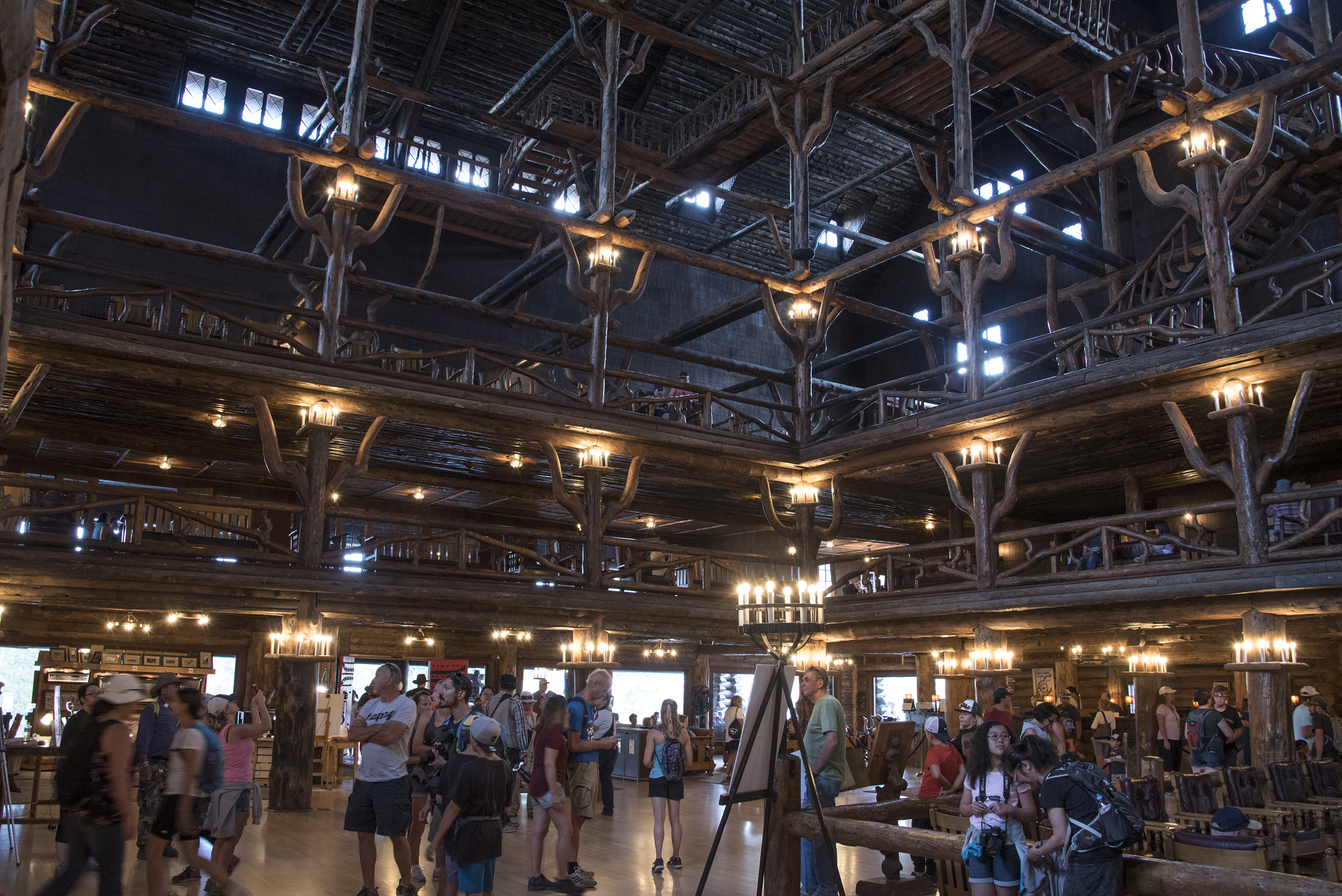 Interior view of Old Faithful Inn summer of 2017